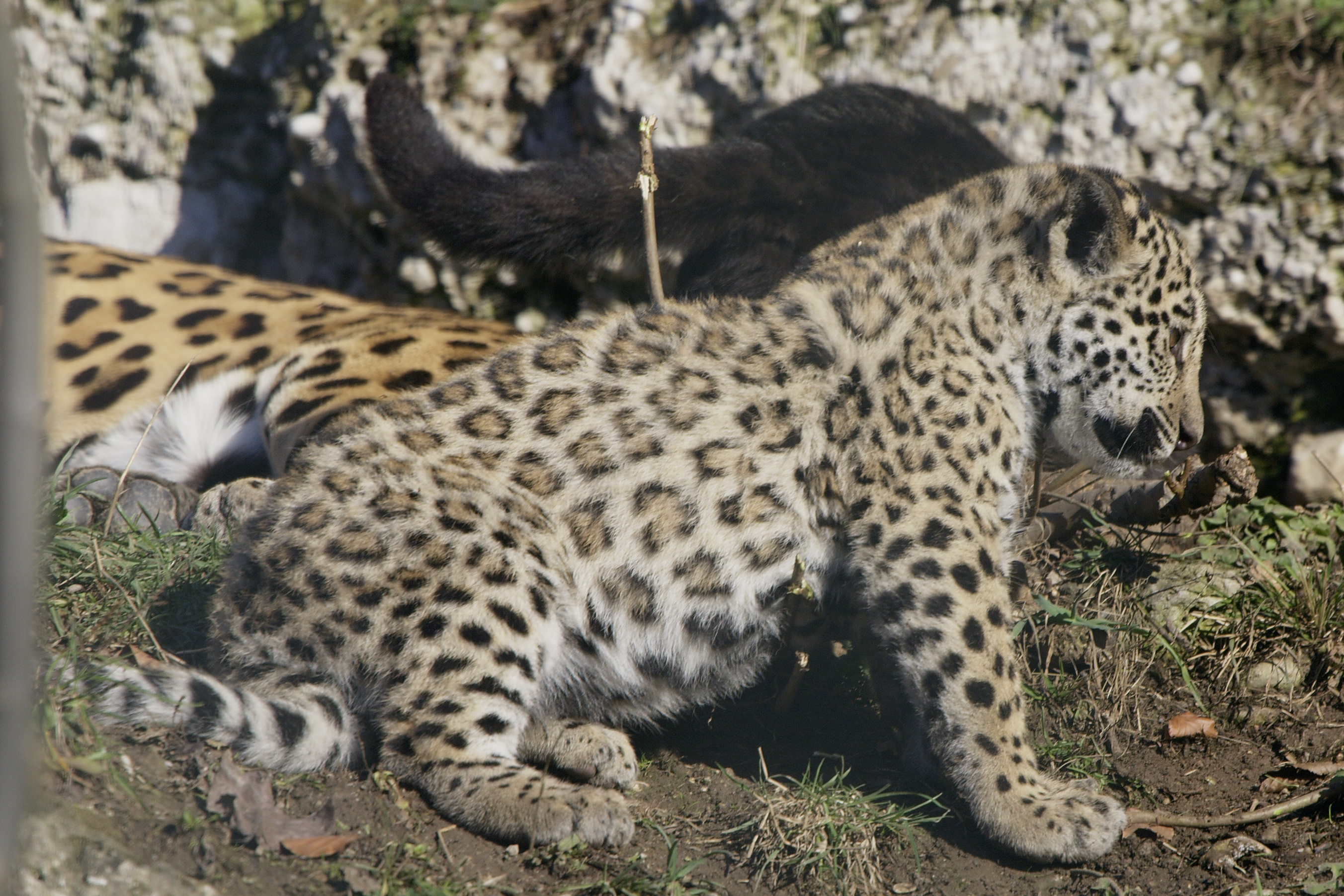 Young (4 months) jaguars at zoo Salzburg. Born at 2009-08-31 photographed at 2009-12-26